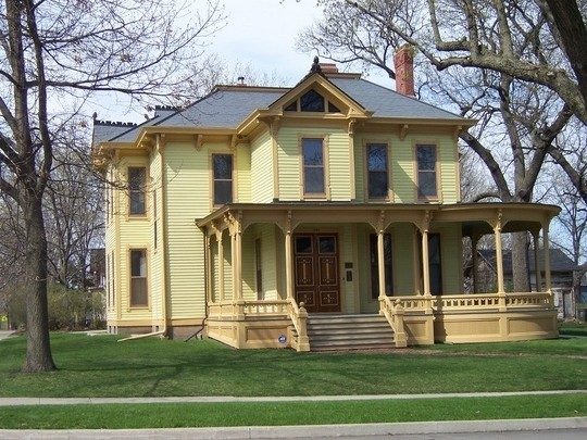 House in Sherman Hill neighborhood, Des Moines, Iowa